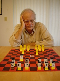 Picture of Robert Abbott taken by Ann Abbott in 2003.